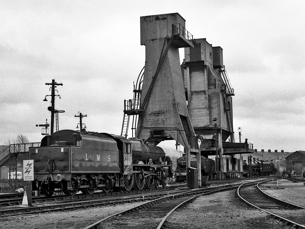 London Midland and Scottish Railway Stanier 5XP 4-6-0 'Jubilee' class locomotive number 5690 LEANDER of Springs Branch MPD stands under the mechanical ash plant at Steamtown Railway Museum at Carnforth prior to running light engine to Hellifield to work a London Euston to Carlisle 'Cumbrian Mountain Pullman' charter forward, while British Railways Thompson 5P6F 2-6-0 'K1' class locomotive number 62005 (painted as London and North Eastern Railway number 2005) under the mechanical coaling plant with London Midland and Scottish Railway Stanier 5P5F 4-6-0 ?Black Five? class locomotive number 5407 of Springs Branch MPD beyond. Saturday 5th February 1983